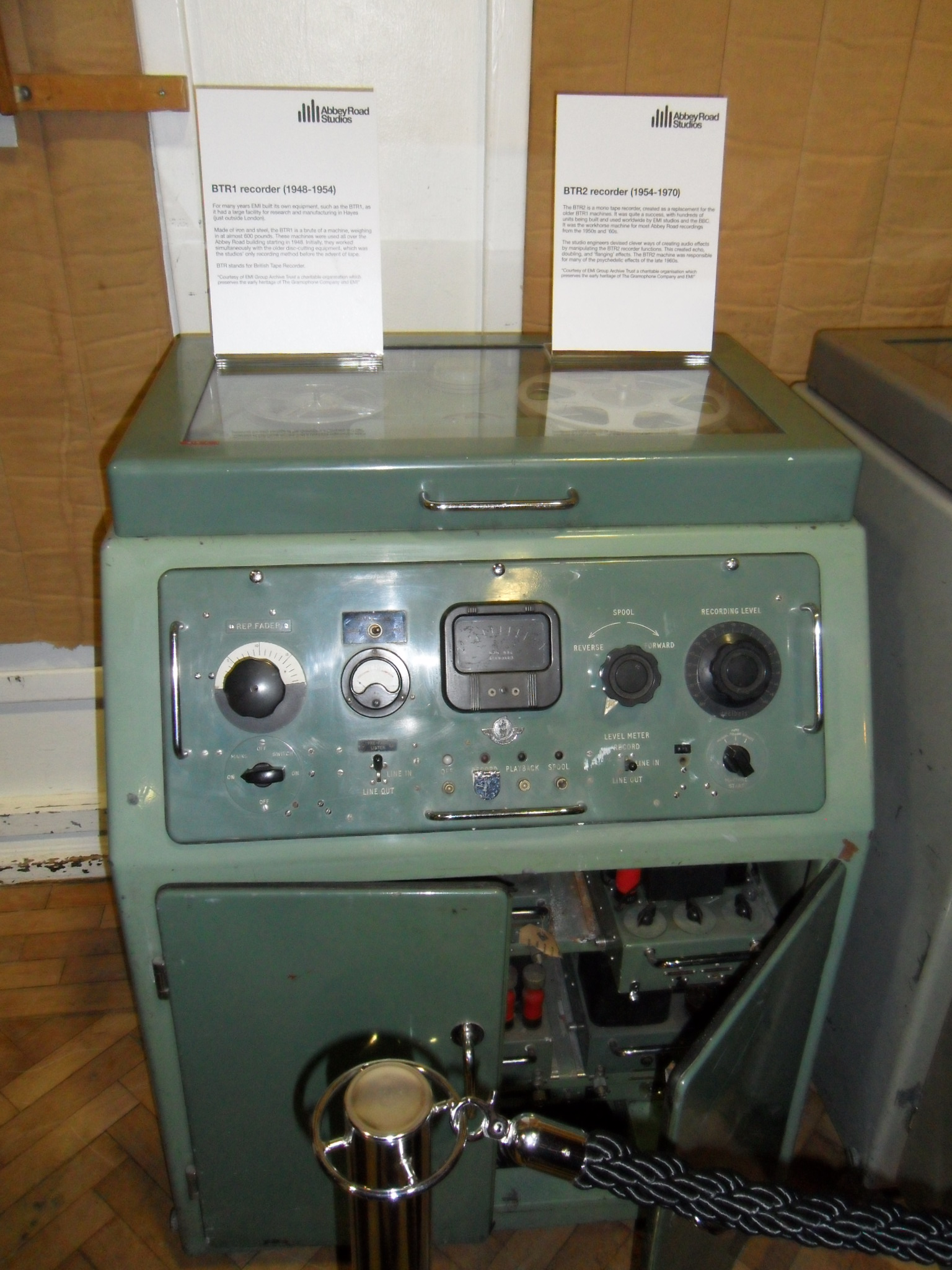 BTR1 recorder (1948–1954) For many years EMI built its own equipment, such as the BTR1, as it had a large facility for research and manufacturing in Hayes (just outside London). Made of iron and steel, the BTR1 is a brute of machine, weighting in at almost 600 pounds. These machines were used all over the Abbey Road building starting in 1948. Initially, they worked simultaneously with the older disc-cutting equipment, which was the studios' only recording method begore the advent of tape. BTR stands for British Tape Recorder. "Courtesy of EMI Group Archive Trust a charitable organisation which preserves the early heritage of The Gramophone Company and EMI" BTR2 recorder (1954–1970) The BTR2 is a mono tape recorder, created as replacement for the older BTR1 machines. It was quite a success, with hundreds of units being built and used worldwide by EMI studios and the BBC. It was the workhorse machine for most Abbey Road recordings from the 1950s and '60s. The studio engineers devised clever ways of creating audio effects by manipulating the BTR 2 recorder functions. This created echo, doubling, and 'flanging' effects. The BTR2 machine was responsible for many of the psychedelic effects of the late 1960s. "Courtesy of EMI Group Archive Trust a charitable organisation which preserves the early heritage of The Gramophone Company and EMI" (quotes from description)